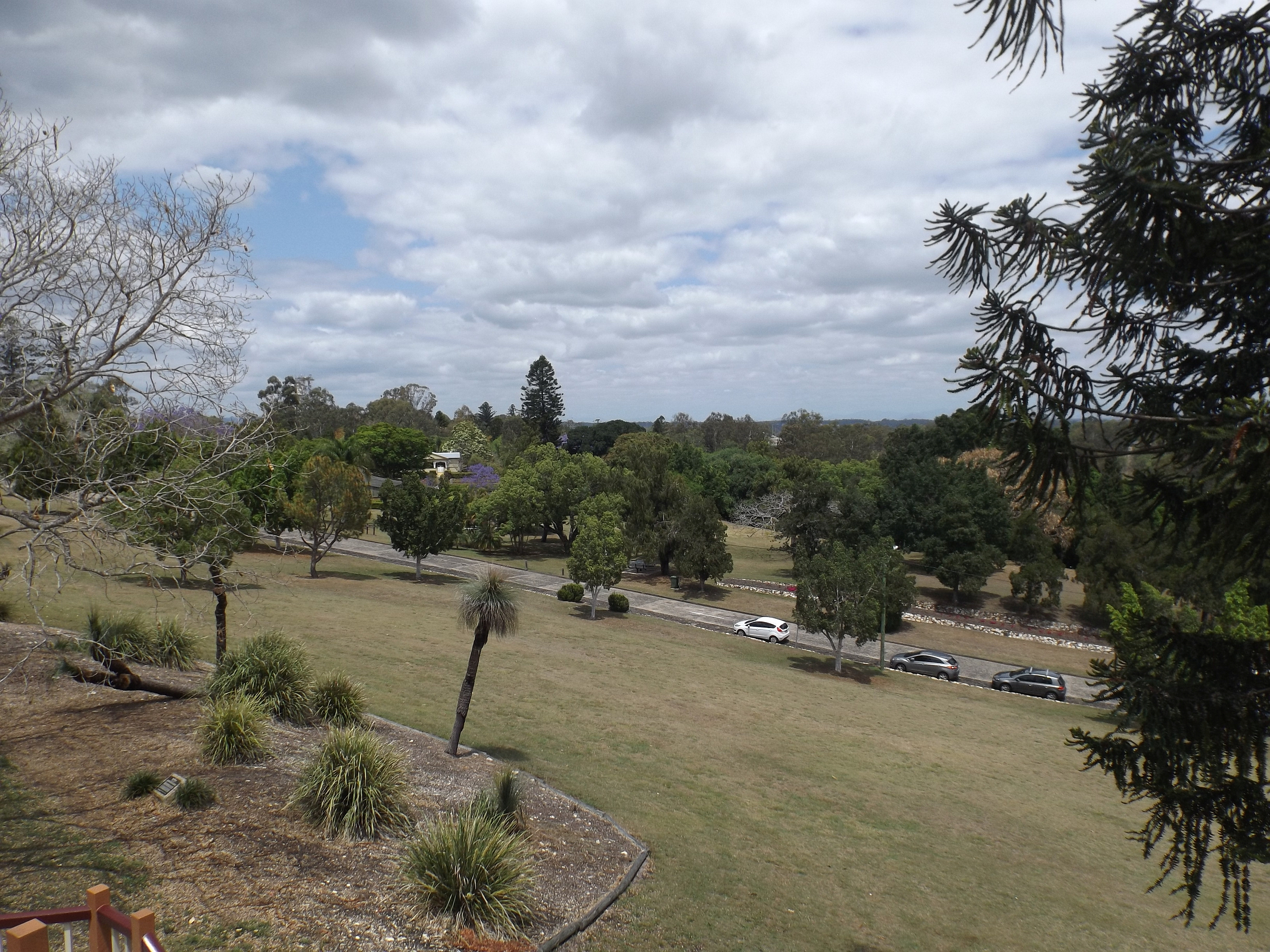 Photo of the view south from Limestone Hill Lookout, Queens Park, Ipswich, Queensland, Australia.